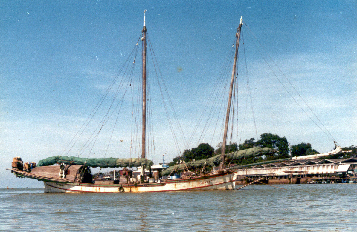 The bedar DAPAT, one year before being decommisssioned, on return from one of her last trips up to Thailand to get salt, estuary of the Terengganu river, 1980